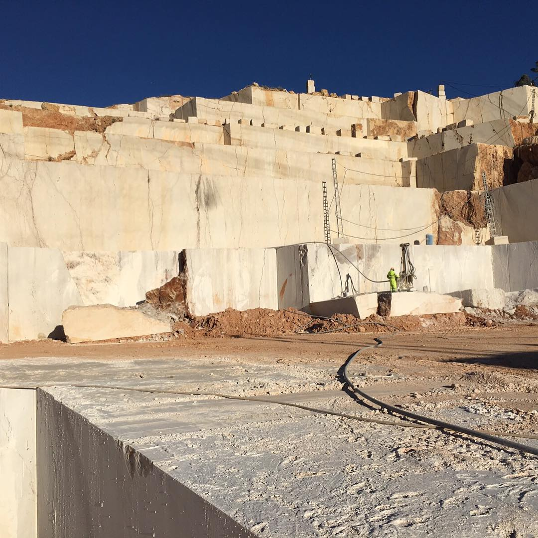 Crema Marfil marble quarry in the Monte Coto de Pinoso, Alicante, Spain.